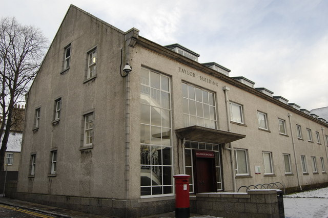 Taylor Building, University of Aberdeen Just one wing of this sprawling structure...